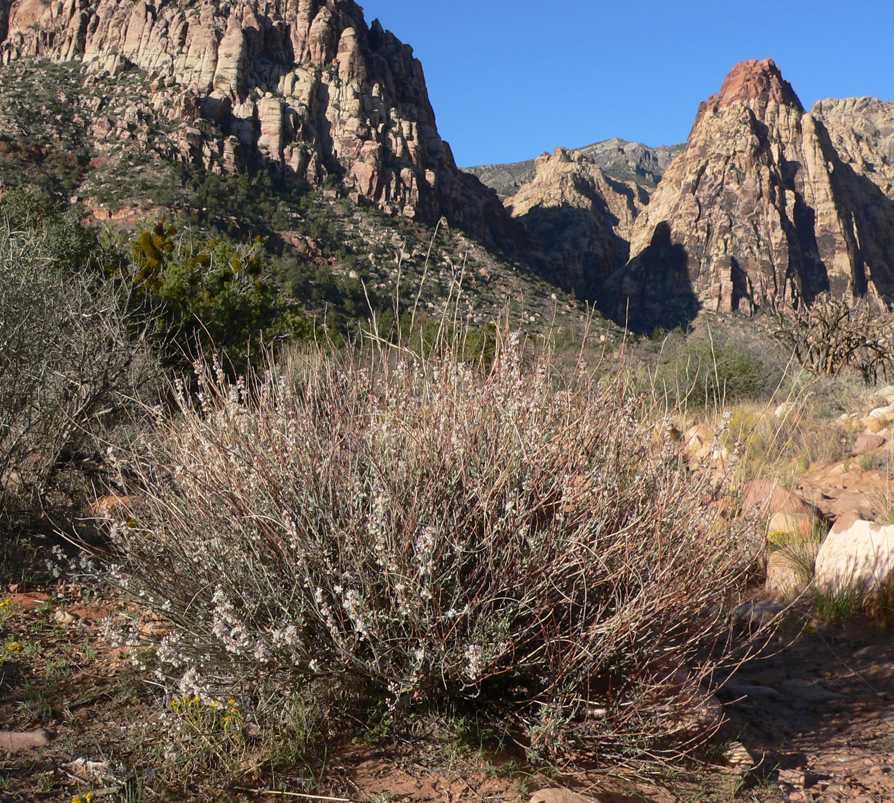 Eriogonum wrightii var. wrightii in Pine Creek Canyon, Red Rock Canyon, southern Nevada